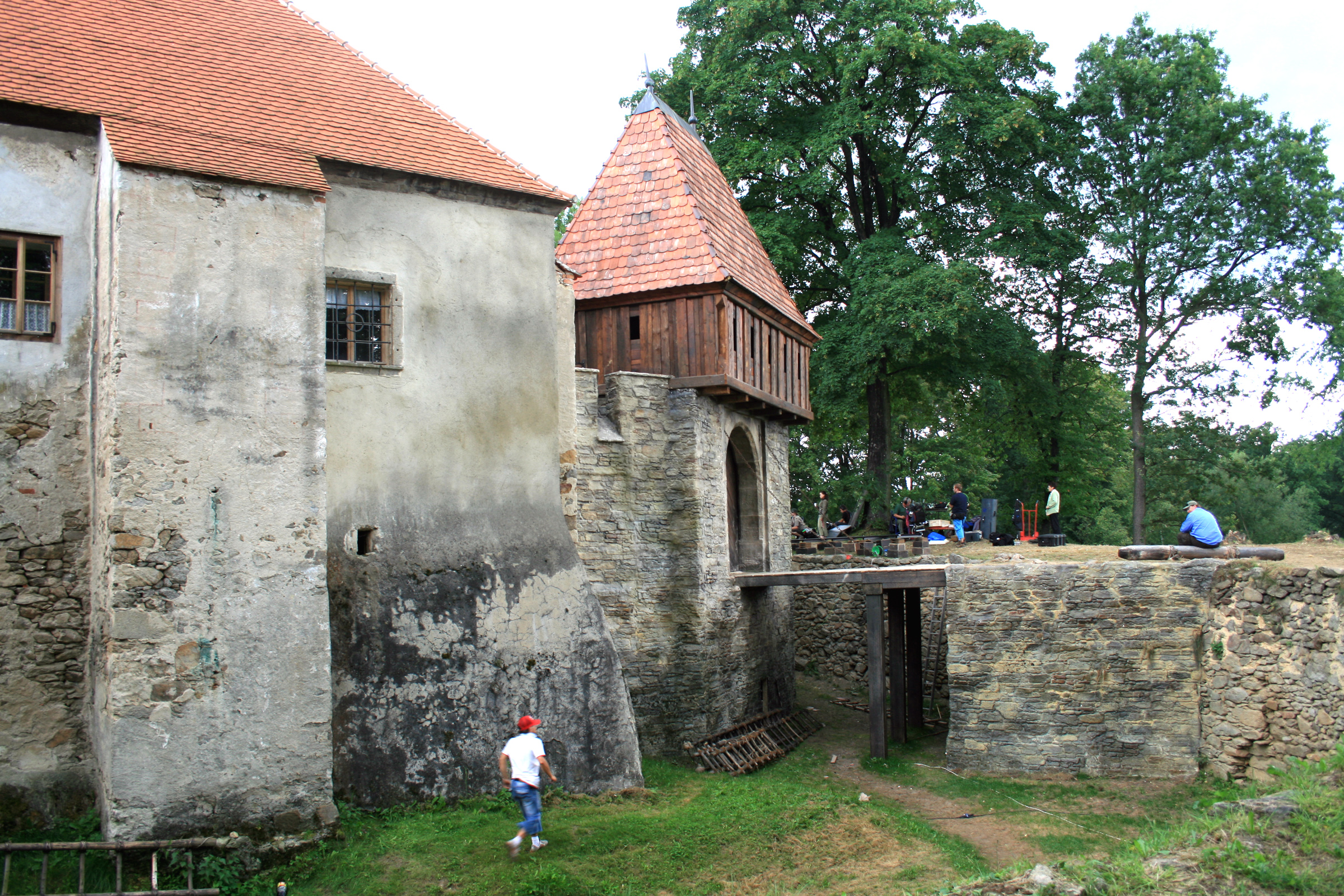 Medieval fortress Cuknštejn near Terezka waley not far from Nové Hrady, South Bohemia, Czech Republic